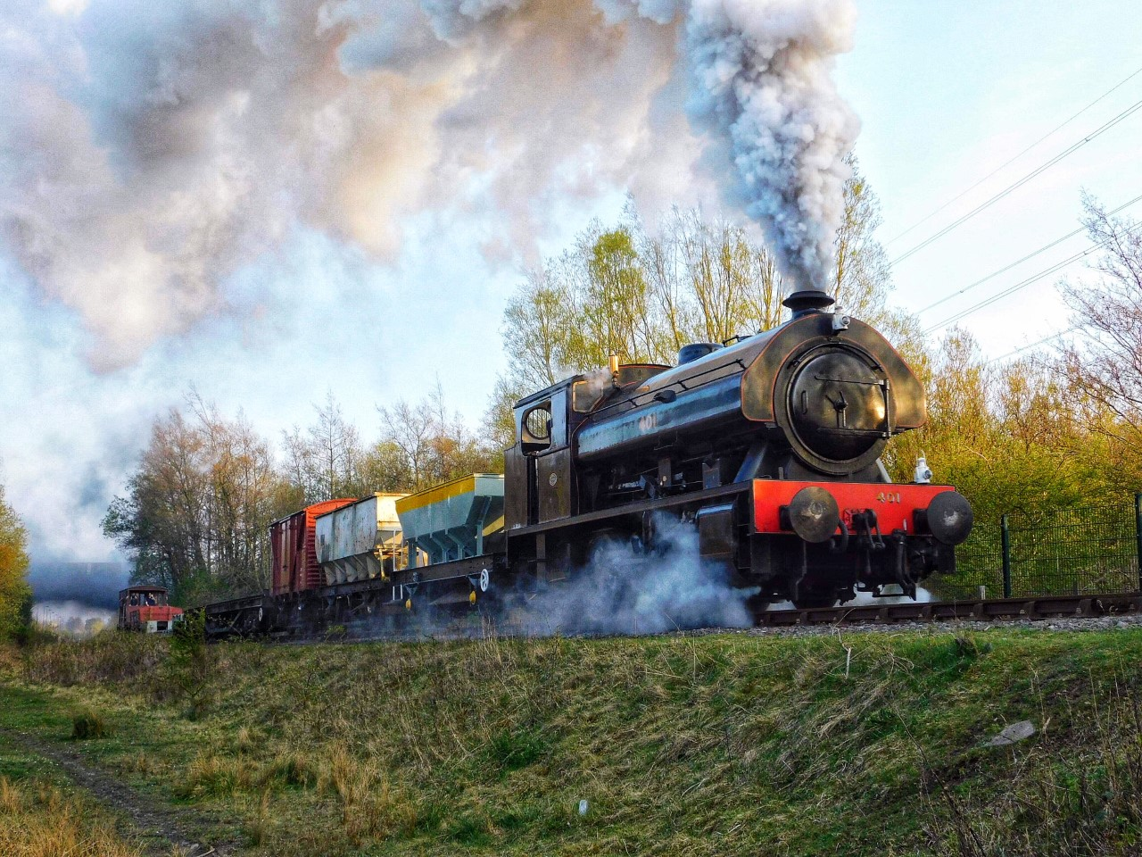 Bagnall 0-6-0ST No.401 'Vulcan' operating a demonstration freight train on the North Tyneside Steam Railway